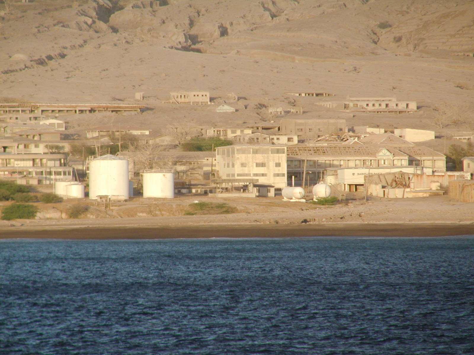 Abandoned town of Plymouth, Montserrat